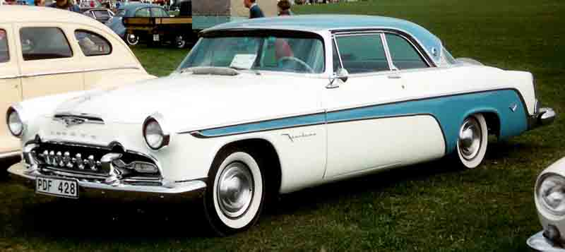 De Soto Firedome 1955